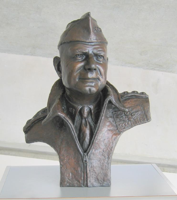 A bust of Jimmy Doolittle (1896-1993), the US General. Taken at the Imperial War Museum, Duxford, UK.